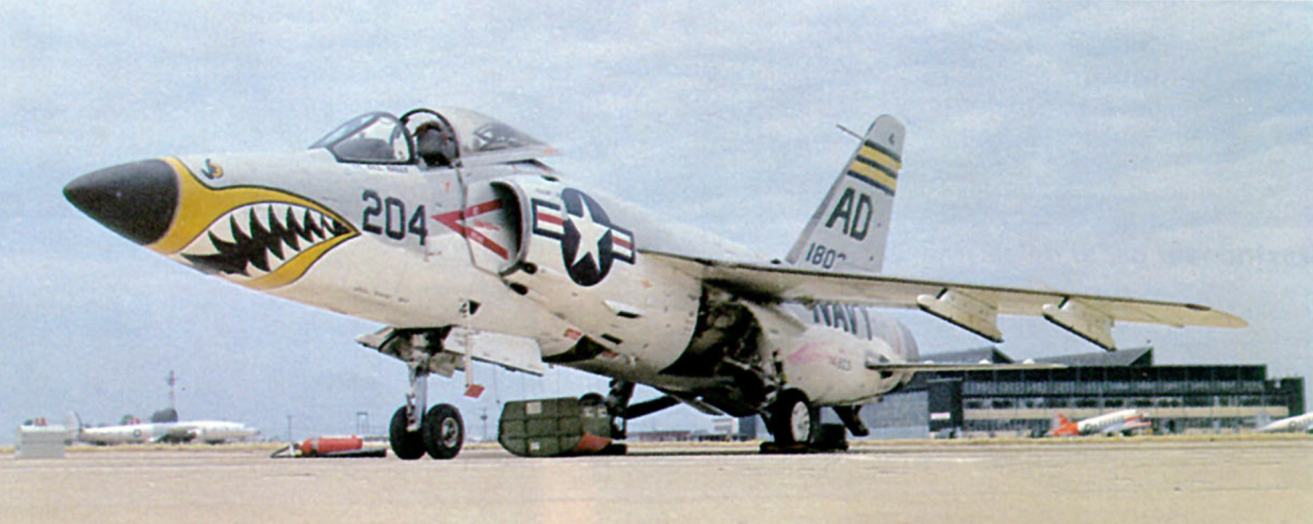 A U.S. Navy Grumman F11F-1 Tiger fighter (BuNo 141803) of attack squadron VA-43 Challengers, circa 1960.